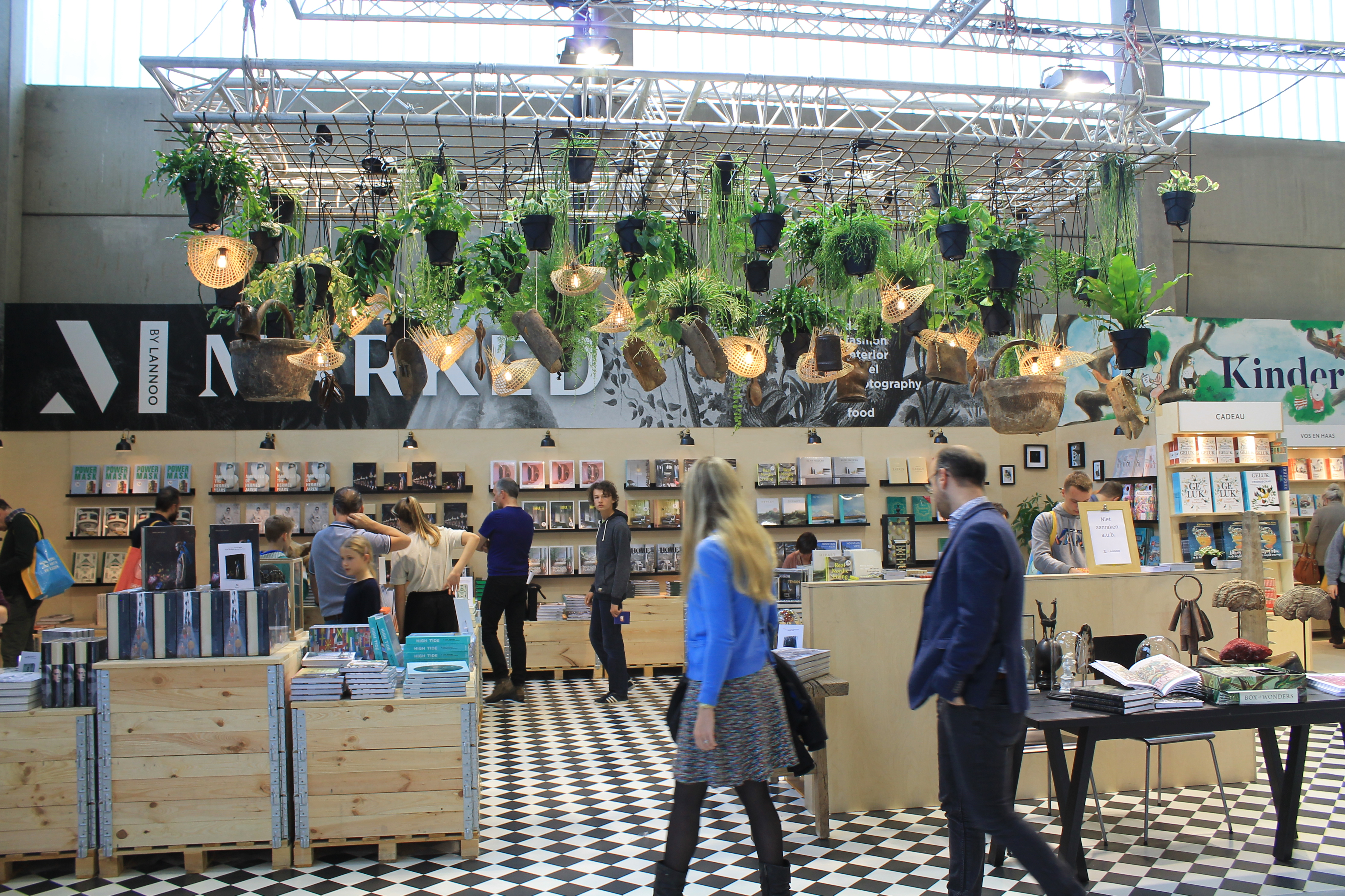 Book fair in Antwerp Expo